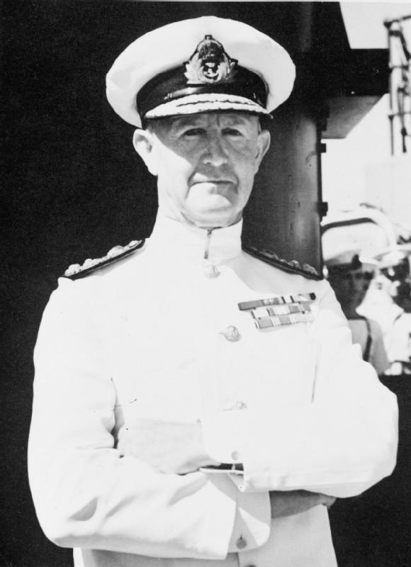 Career of Admiral Sir Andrew Cunningham A portrait of Admiral Sir Andrew Cunningham, Commander in Chief of the Royal Navy's Mediterranean Fleet. He is dresed in 'whites', or Royal Navy tropical dress.